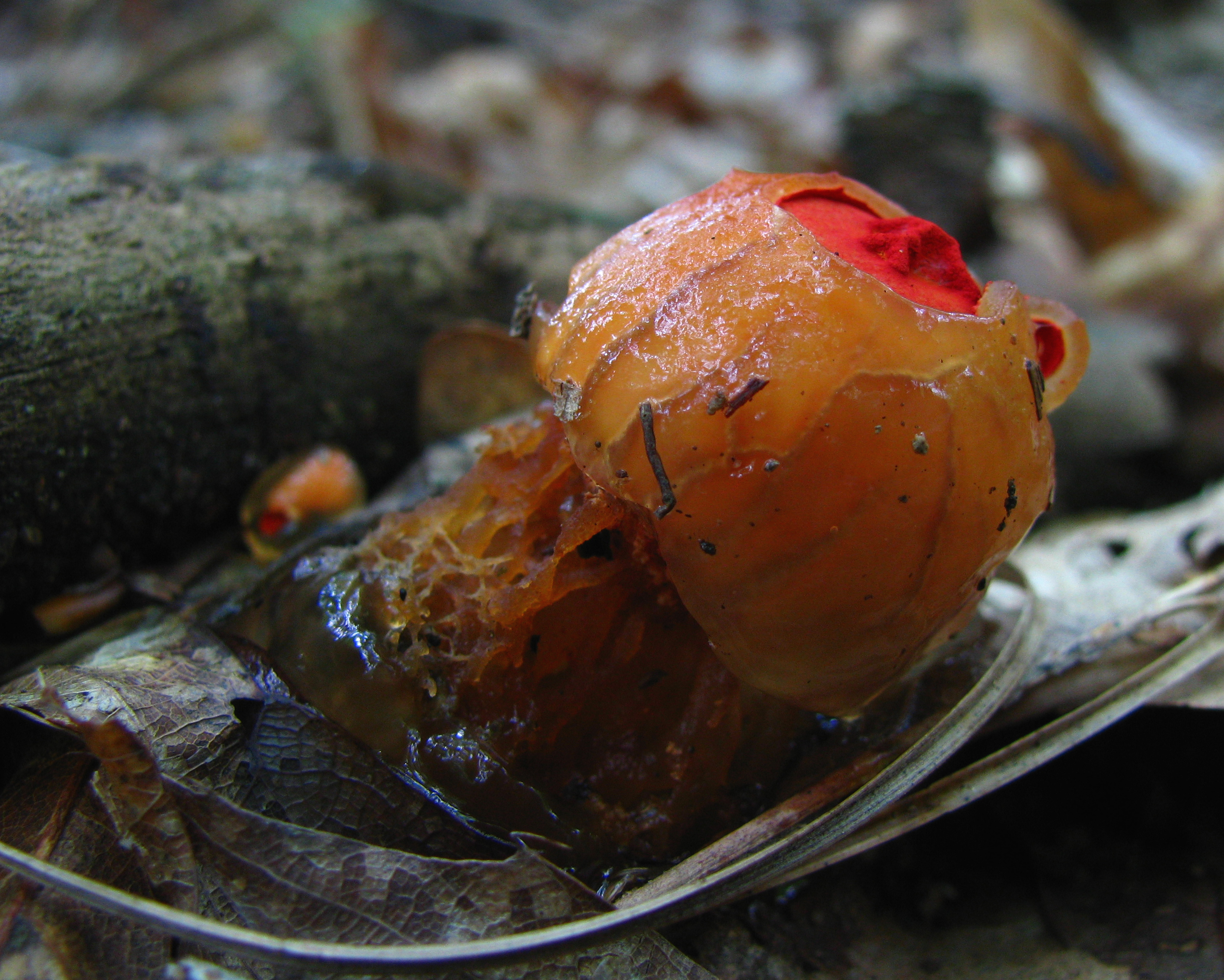 The fungus Calostoma cinnabarina. Photographed in Babcock State Park, Fayette Co., West Virginia, USA. Original photo cropped and brightened (+5) with Photoshop by uploader.